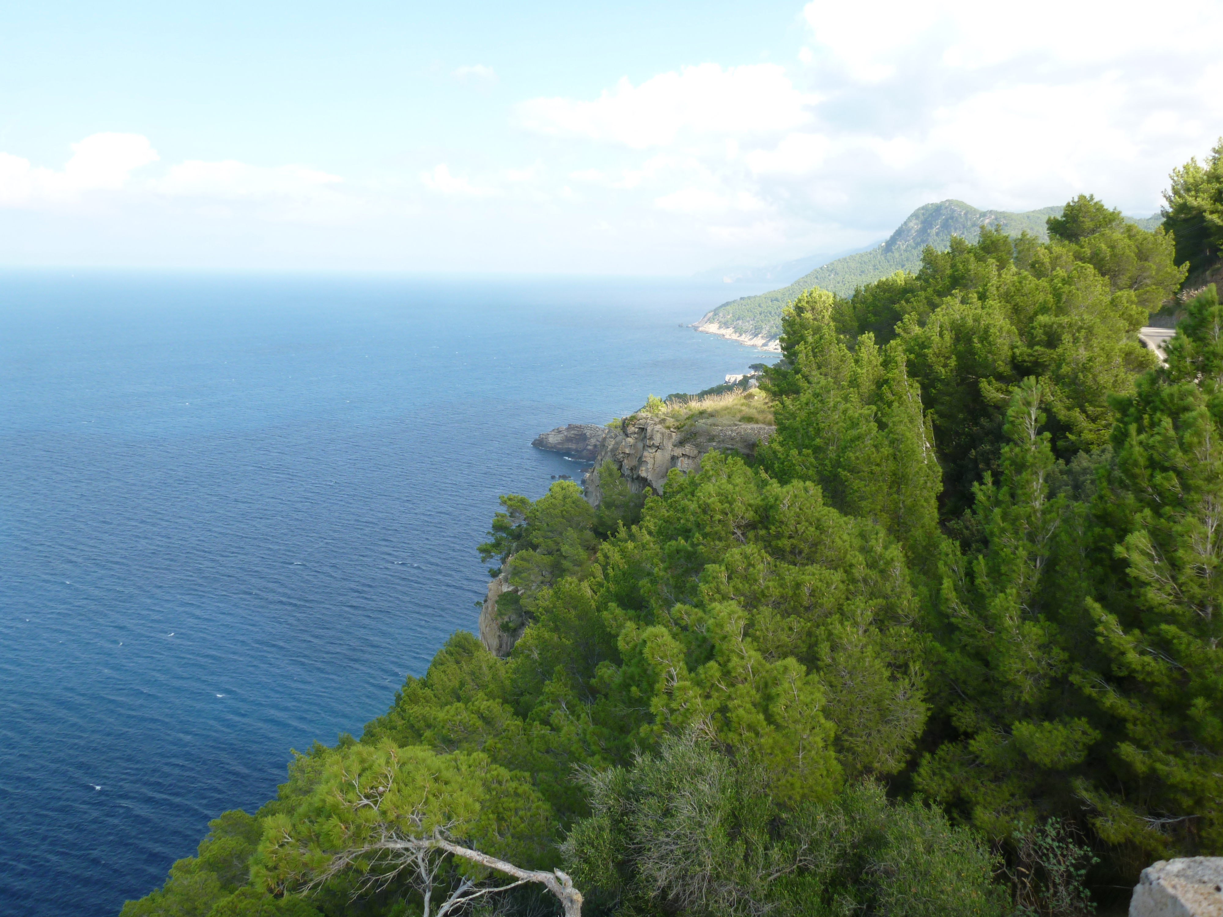 View from the top of the Torre del Verger